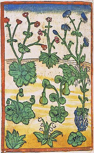 Hand-coloured woodcut from Konrad von Megenberg (1309-1374) - "He nach volget das Puch der Natur" - Augsburg: H. Bamler, 1475 The scholar and cleric Konrad von Megenberg compiled his encyclopedic Book of Nature in the fourteenth century from a number of earlier authorities. The fifth chapter discusses 89 plant species arranged in no particular order. The woodcuts are the first printed depictions of plants presented for botanical rather than decorative purposes.